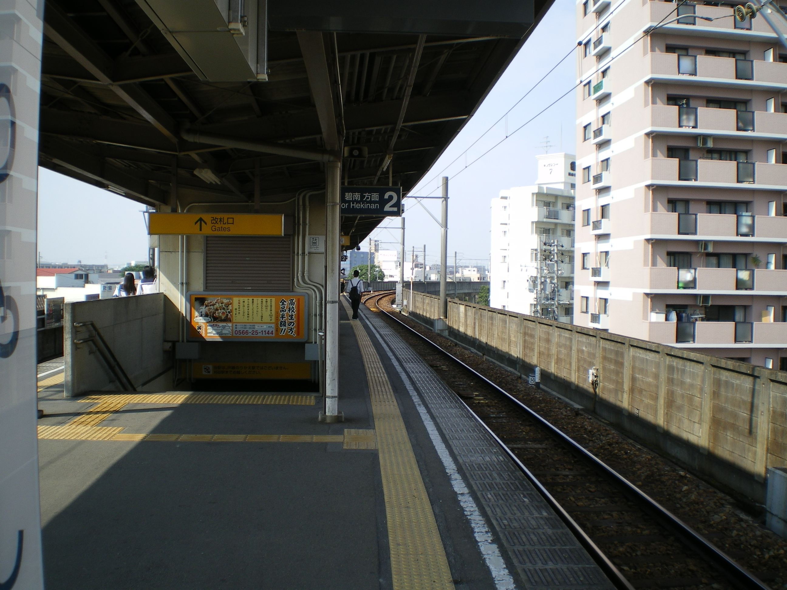 Nagoya Railroad Mikawa Line Kariyashi Station Platform (for Hekinan)